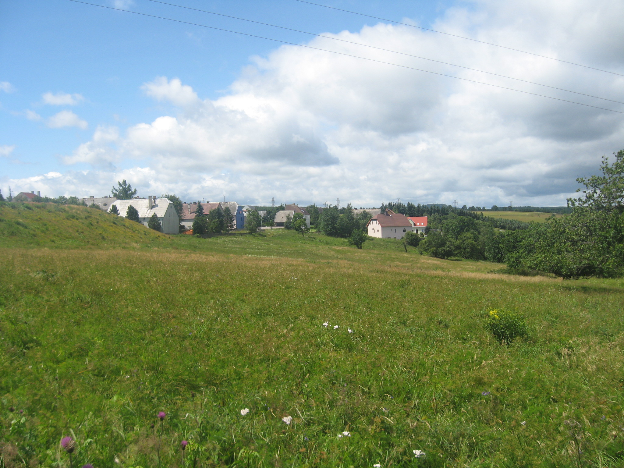 Hora svatého Ševestiána (Czech Republic) from North